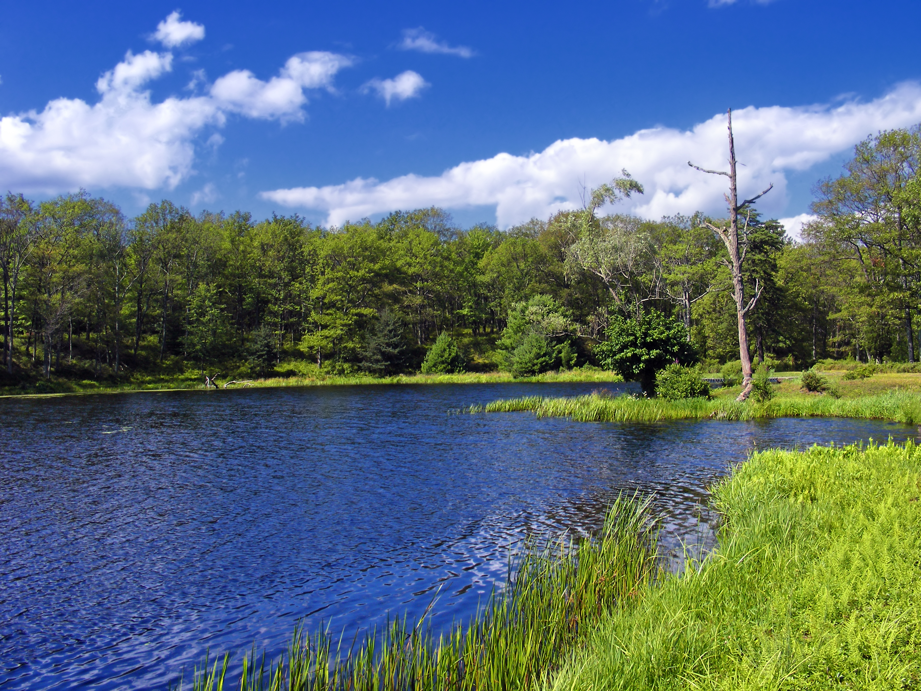 Stairway Lake, Delaware State Forest, Westfall Township, Pike County in the Buckhorn Natural Area. Topography accounts for the name of the lake. Steep cliffs, terraced into the shape of stairs, lie nearby; at their crest is a narrow vista . A waterfall spills over part of the cliffs, but it ran mostly dry when I hiked here.